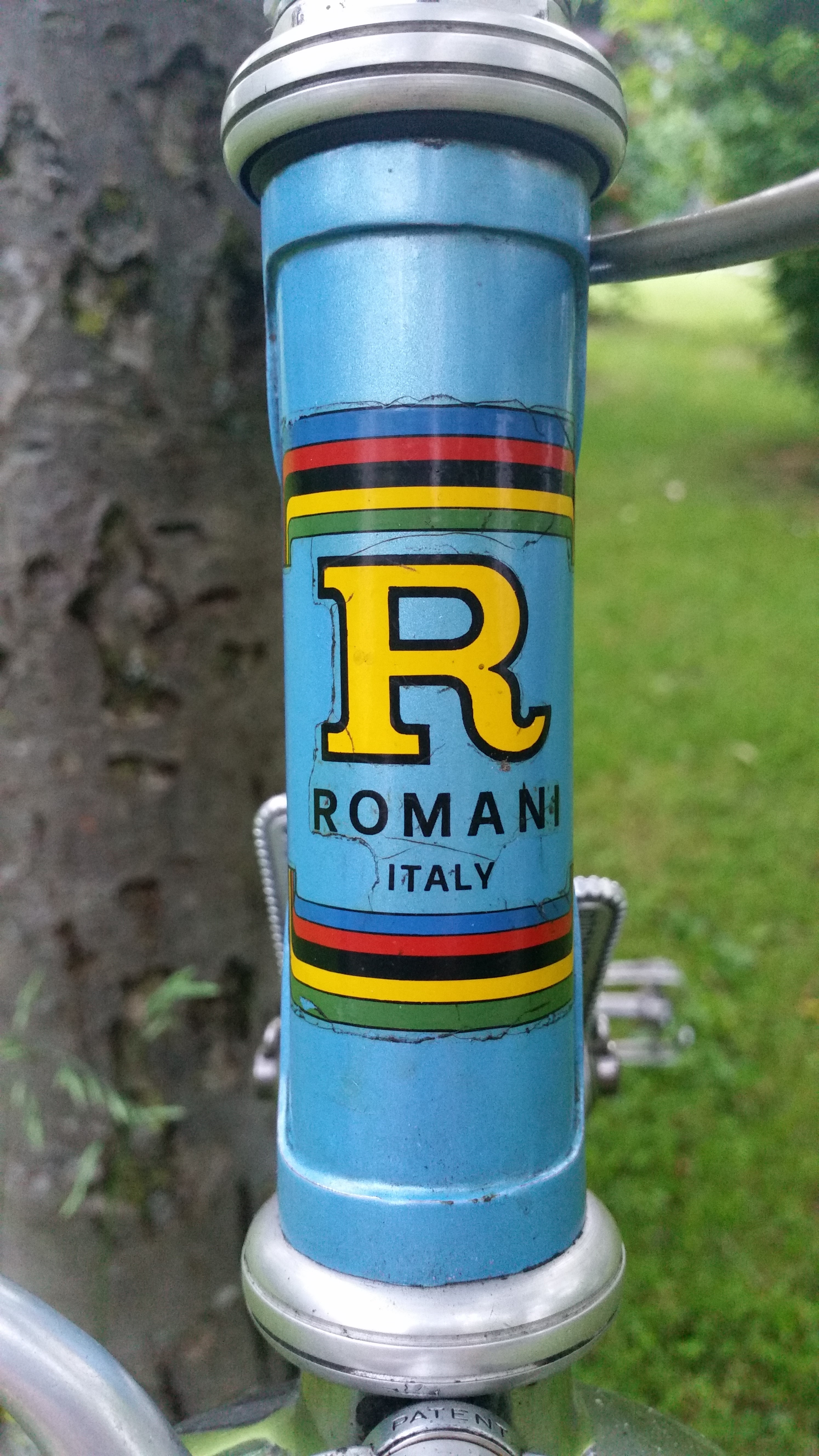 Romani Headbadge